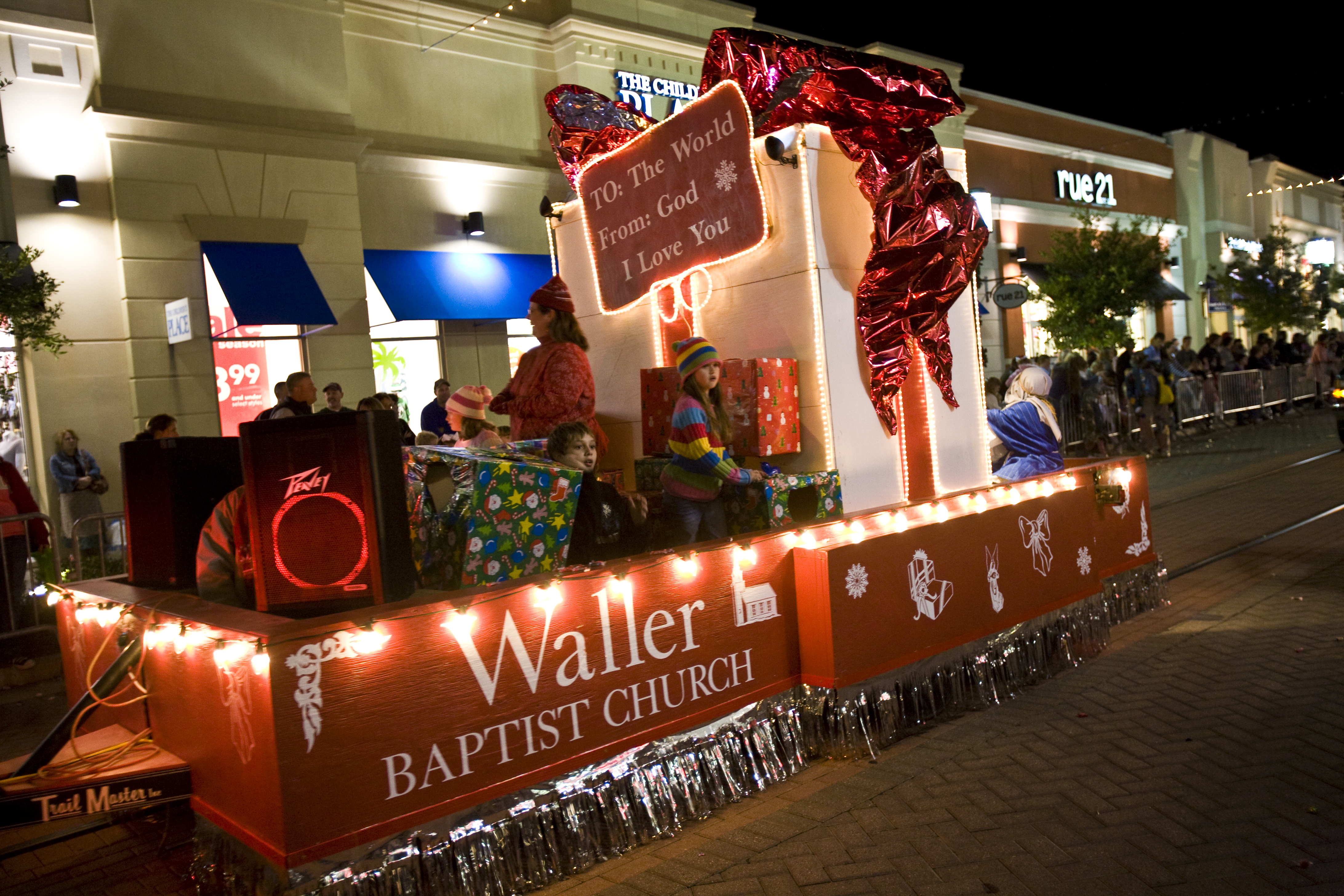 Each year, the Louisiana Boardwalk Outlets puts on a Christmas parade for the community and visitors.